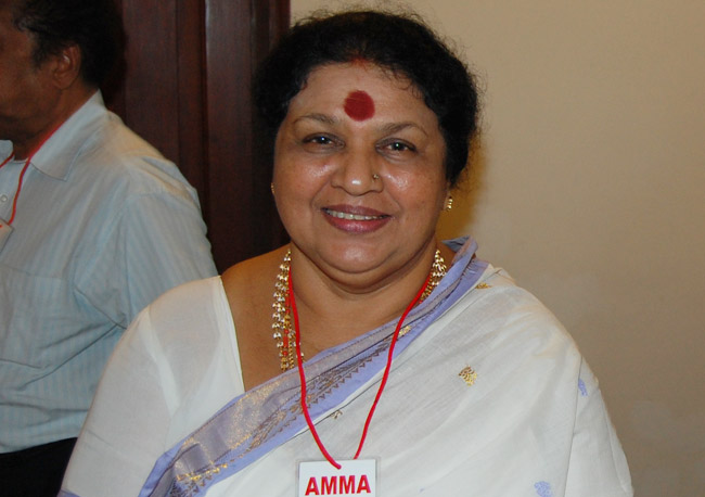 Kaviyoor Ponnamma